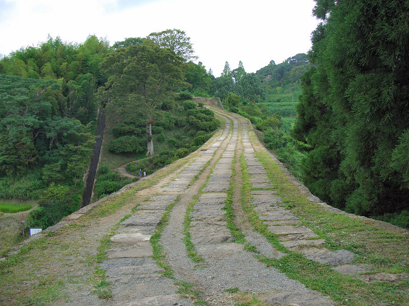 The top of Tsujun Bridge (Tsujun-kyo)